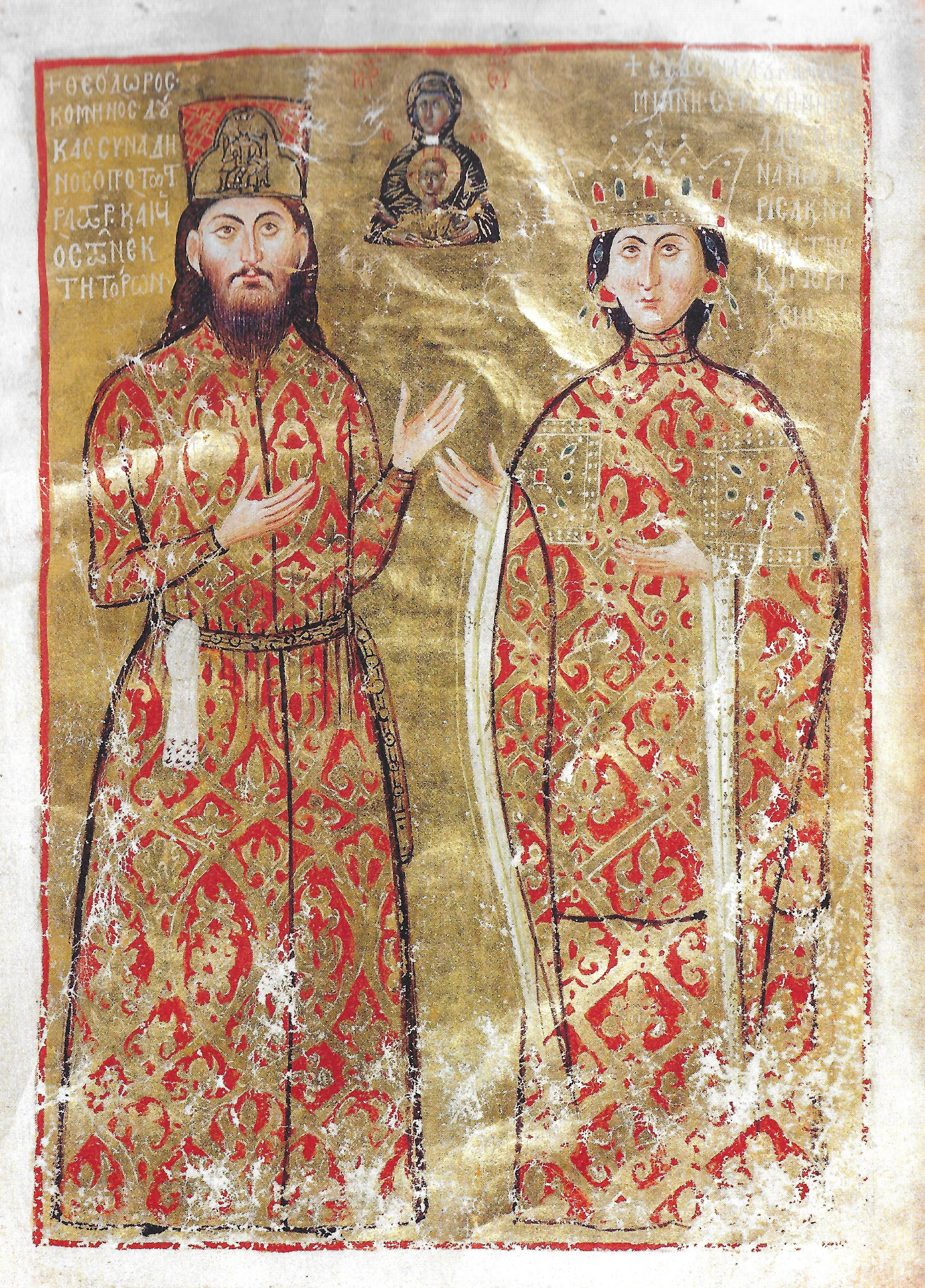 Protostrator Theodore Komnenos Doukas Palaiologos Synadenos and his wife Eudokia Doukaina Komnene Palaiologina Synadene. Typikon of Theodora Synadene for the Convent of the Mother of God Bebaia Elpis in Constantinople, Bodleian Library